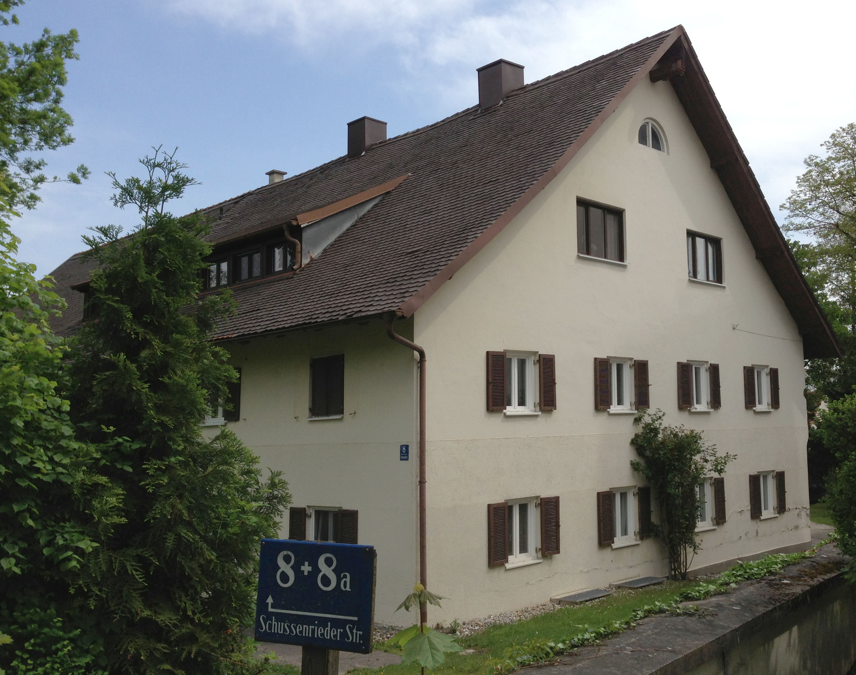 Schussenrieder Str. 8, München